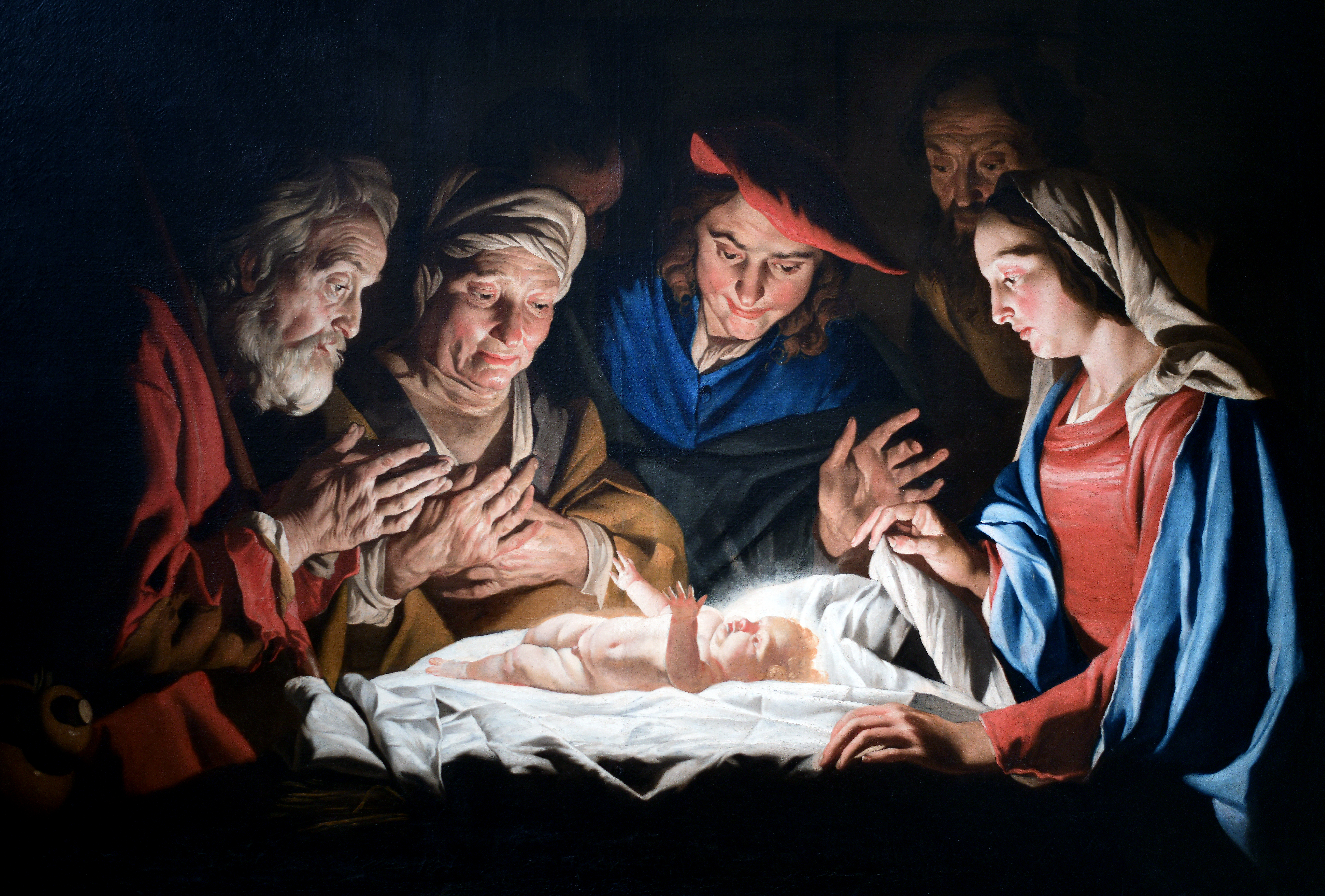 Adoration of the sheperds - Matthias Stomer